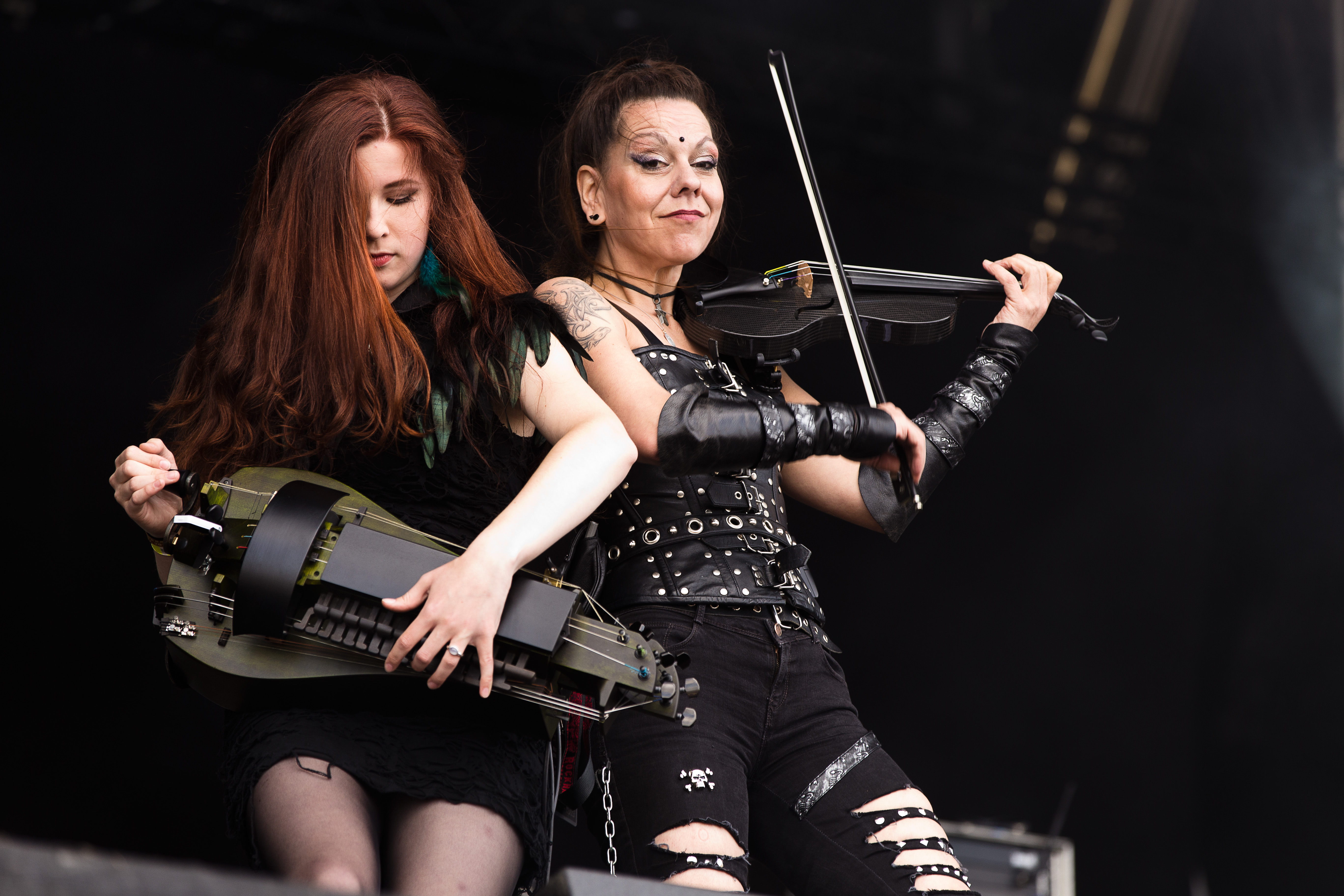 The German folk metal band Harpyie at the Rockharz Open Air 2016 in Ballenstedt/Germany.